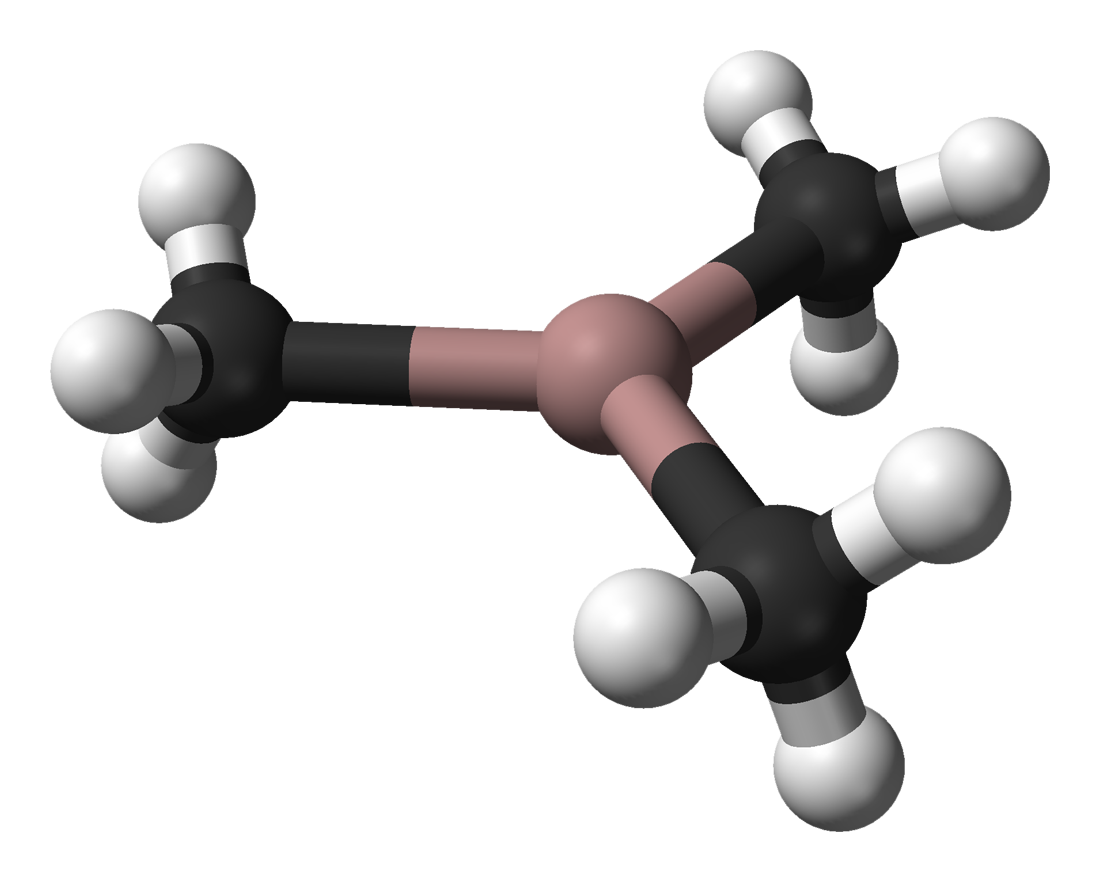 Ball-and-stick model of the trimethylgallium molecule, as found in the crystal structure. X-ray crystallographic data from Angew. Chem. Int. Ed. 2002, 41, No. 14, 2519-2522. Model constructed in CrystalMaker 8.1. Image generated in Accelrys DS Visualizer.